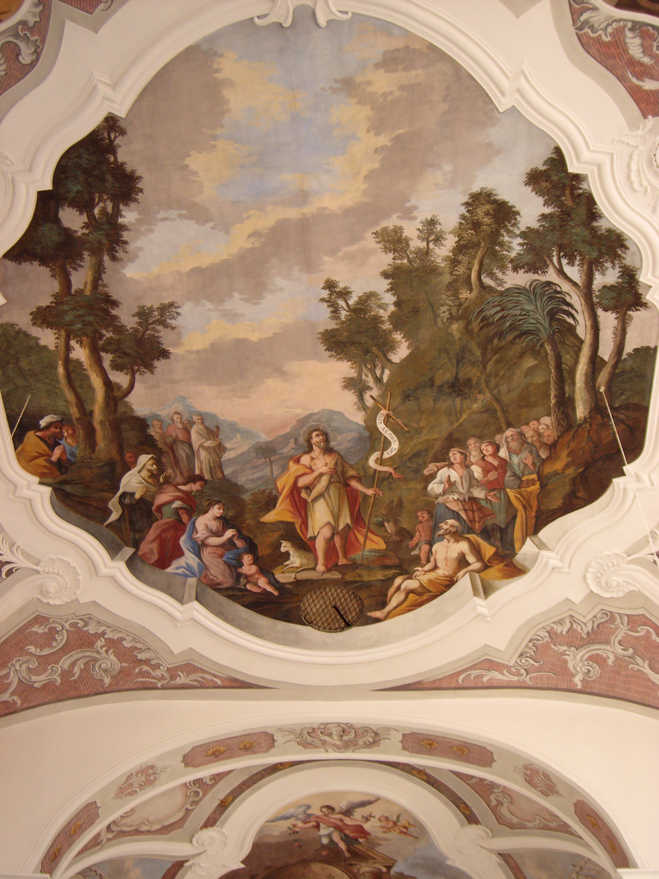 Fresco in Church St. John the Baptist, Igling, Germany